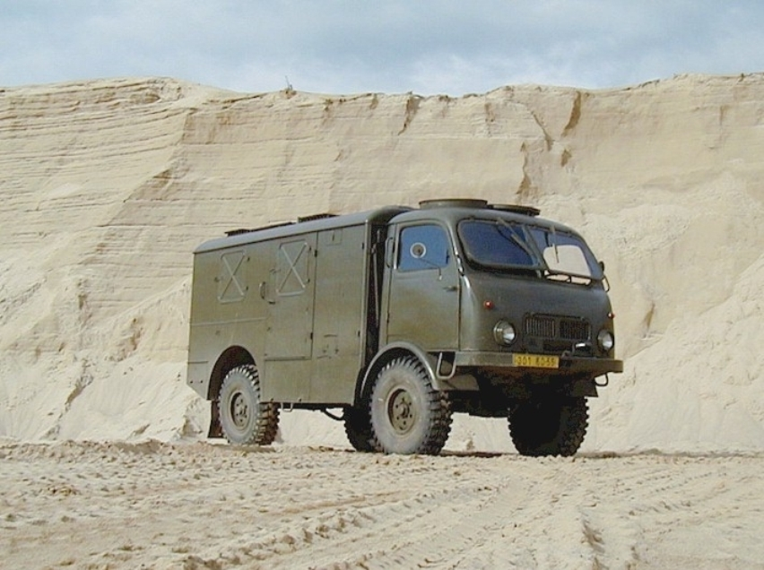 Tatra 805 - car with military transmitter Photo: Ondrej Ertl (2001), Kamenný Mlyn, Slovakia